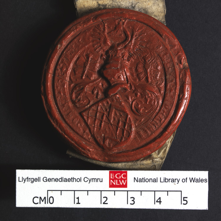 Dyddiad / Date : 1522 Disgrifiad/Description : Seal of John Tuchet, Lord de Audeley Shield of arms (quarterly: 1, 4 a fret; 2, 3 ermine, a chevron) with a helm and crest (out of a coronet, a ?swan) and mantling, a butterfly in the field dexter and sinister Rhif ffeil delwedd / Image file no. : sea00002 Rhagor o wybodaeth am brosiect Seliau yng Nghymru'r Oesoedd Canol More information about the Seals in Medieval Wales project